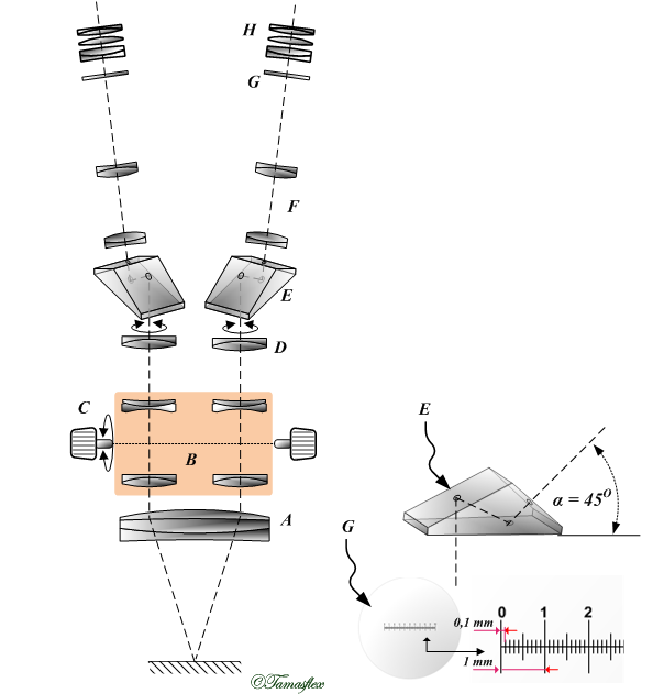 Stereomicroscope optical design.